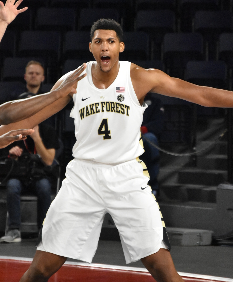 Game # 4 of the 2017 Paradise Jam featured the Wake Forest Demon Deacons and the Drake Bulldogs